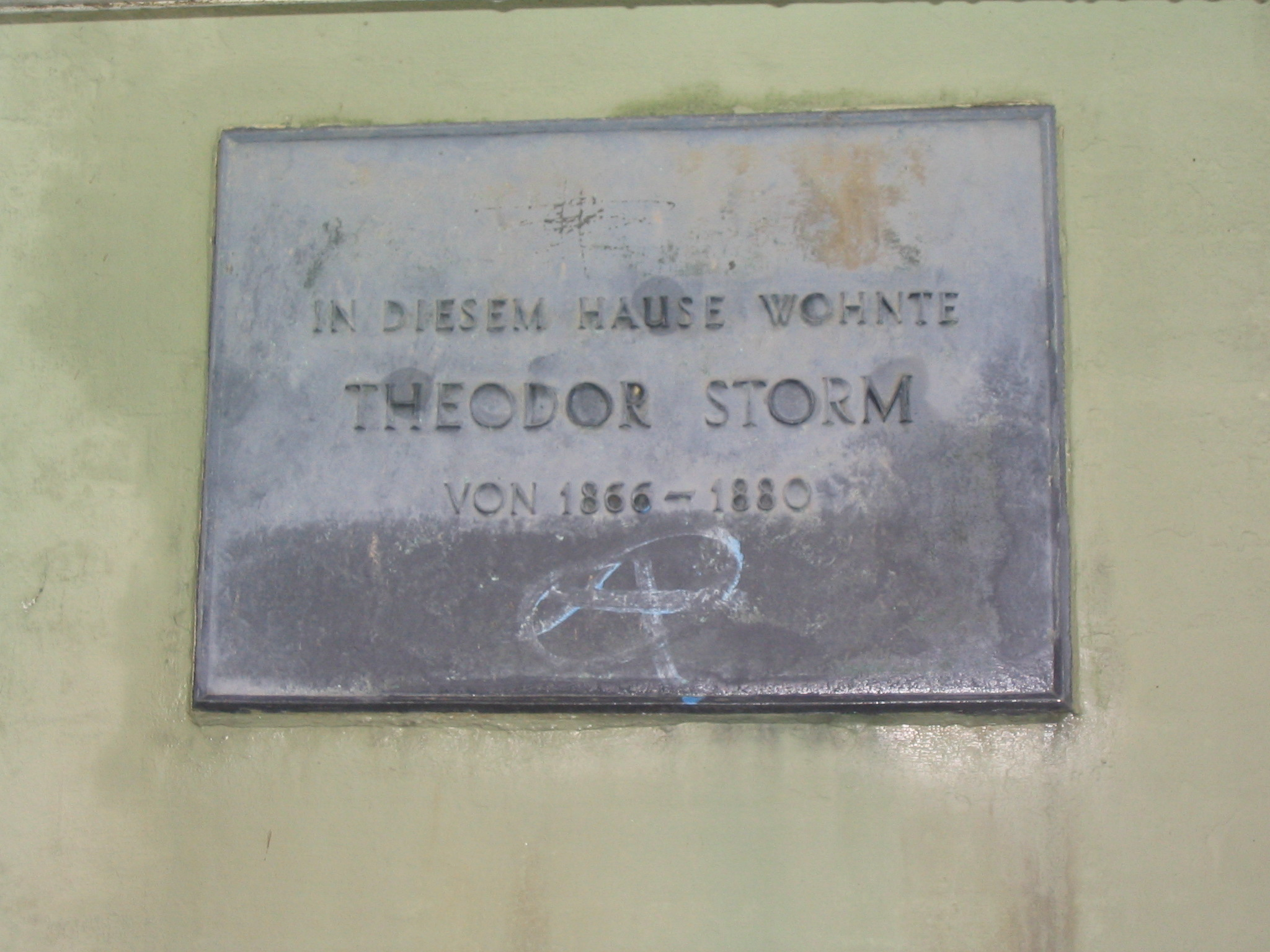 Theodor Storm Haus in Husum, Nordfriesland